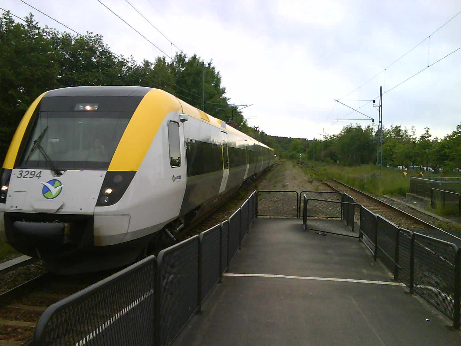 A railway at Ytterby near Kungälv, Sweden